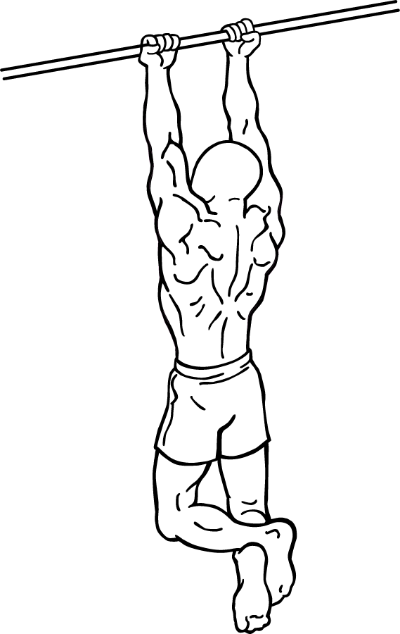 an exercise of upper back and biceps